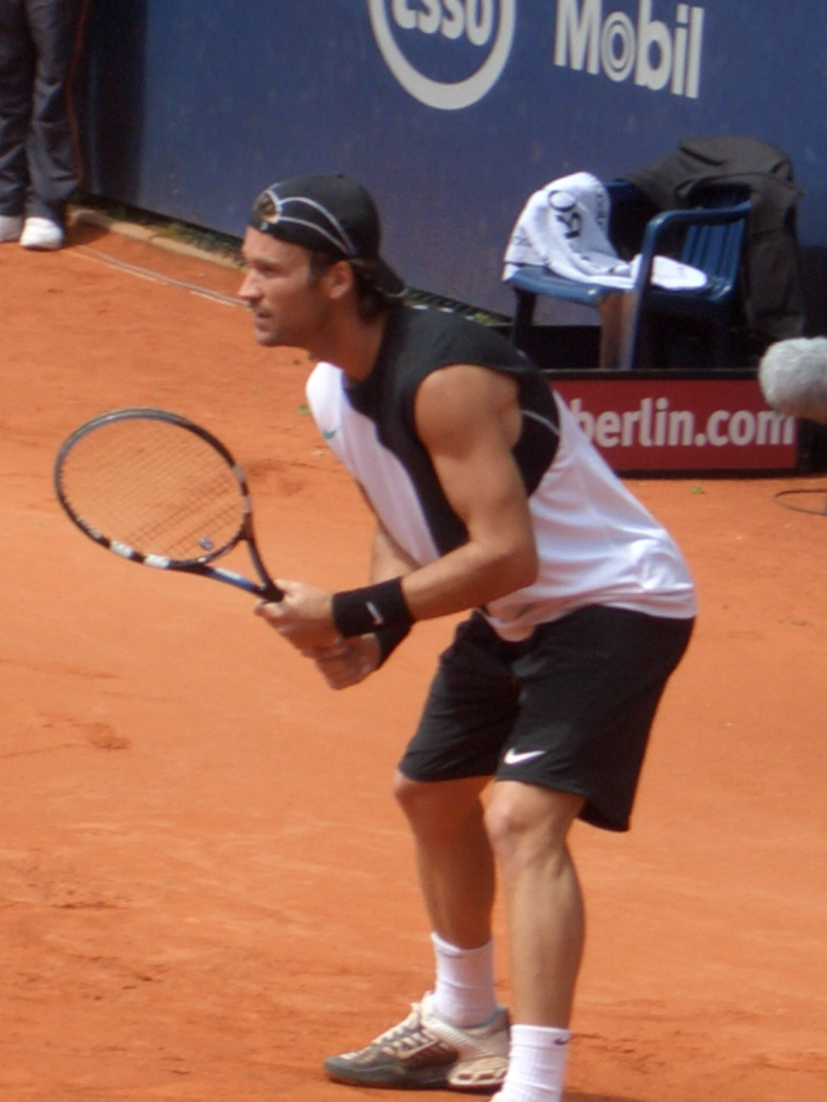 Carlos Moya playing James Blake at the Hamburg Masters 2007